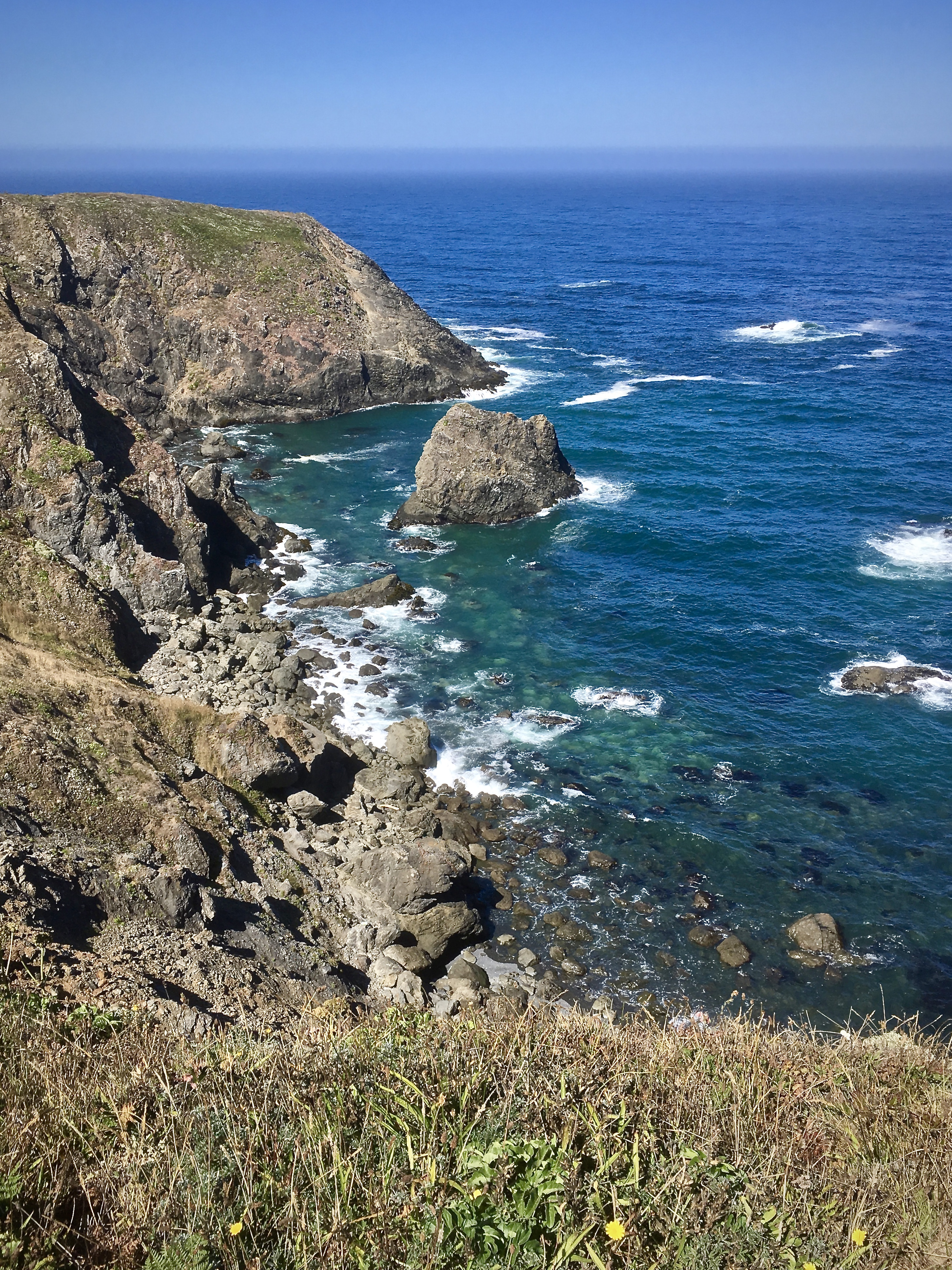 just south of Albion off CA-1, Wonderful views, that we had to ourselves. Thank you, Mendocino Land Trust!